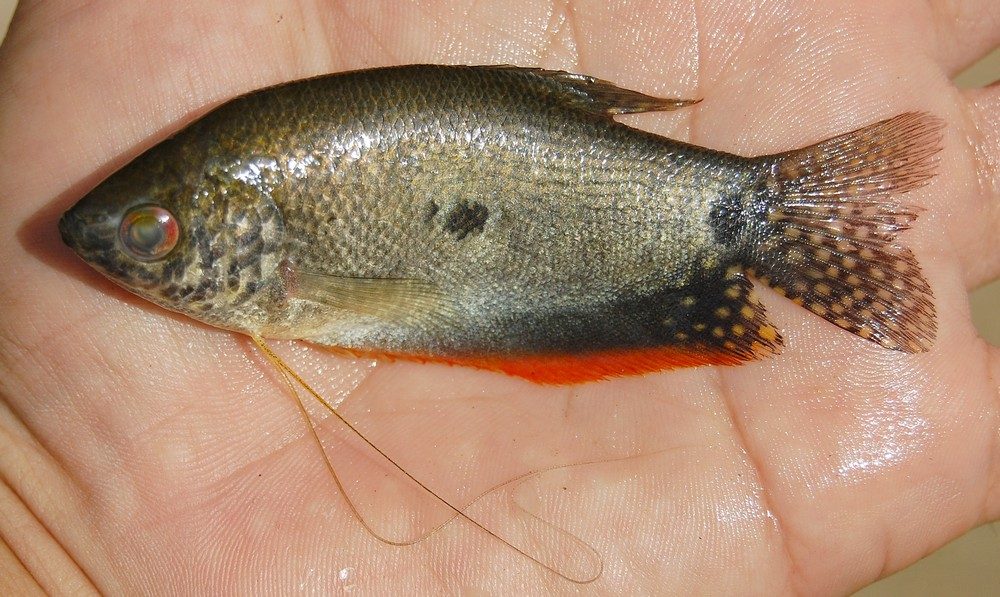 Trichogaster trichopterus, 80 mm SL, from Banyumas, Central Java, Indonesia